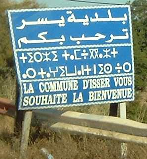 A multilingual road sign in Kabylie (Algeria), depicting Arabic, Tamazight and French.